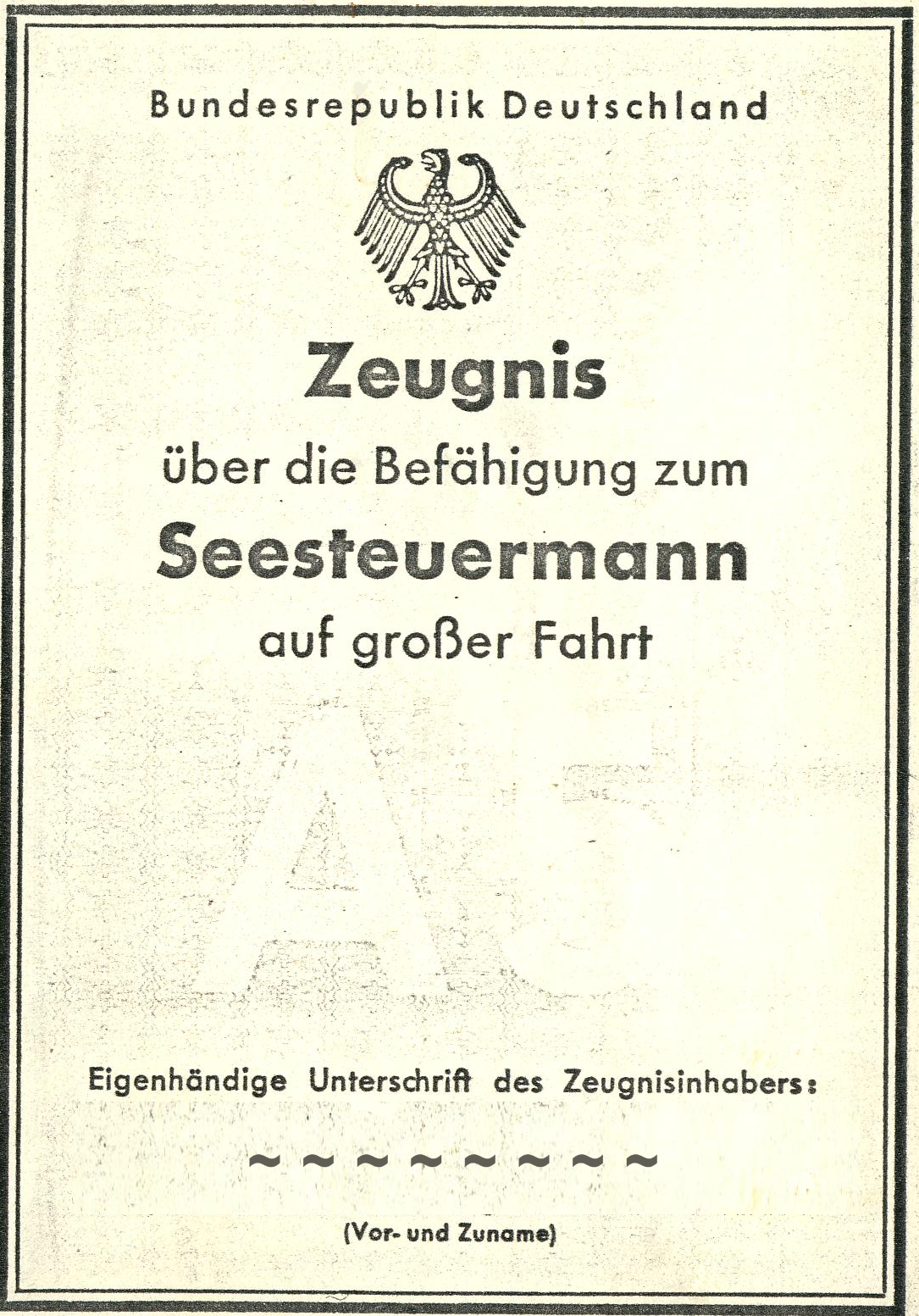 German merchantmarine mates licence A5 - 1962